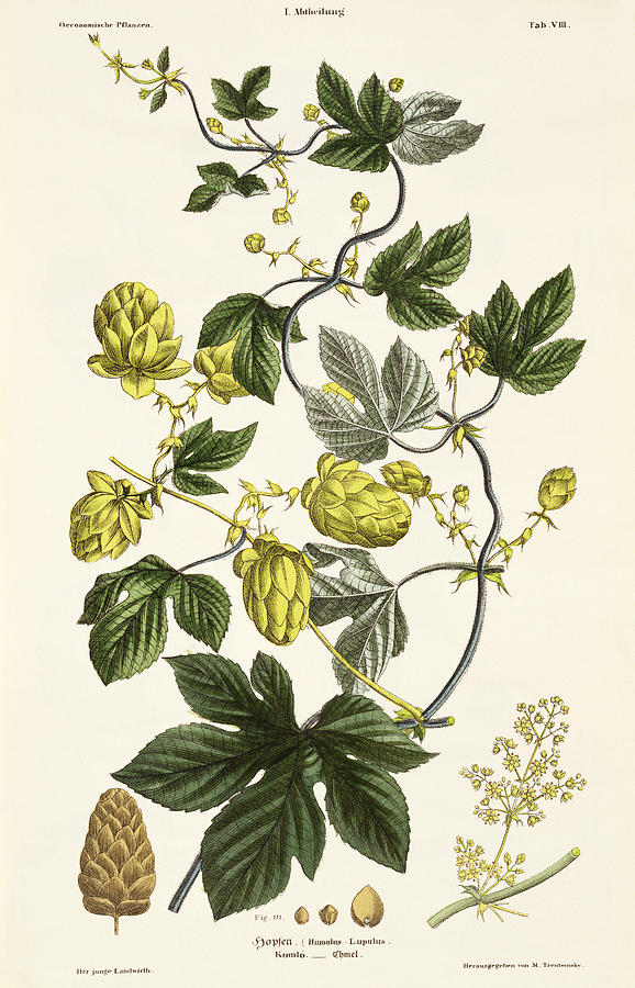 Botanical plate depicting hop vine (Humulus lupulus) and first published in The Young Landsman, Vienna, 1845